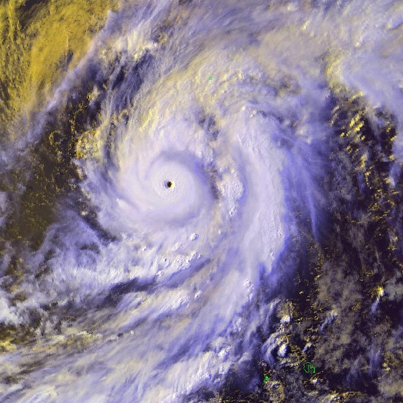 Severe tropical cyclone 01W, Damrey, was located near 16.4N 134.4E moving in a northeasterly direction at 13 knots. Maximum sustained winds were estimated at 130 knots, gusts to 160 knots.